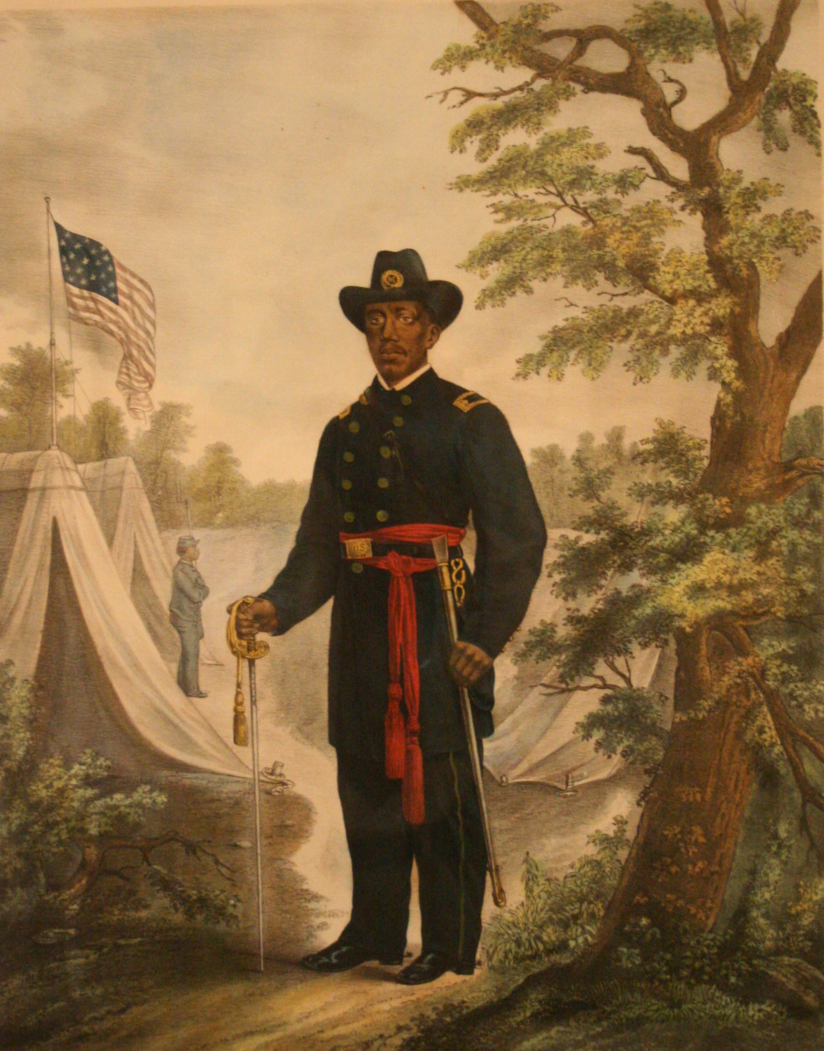 Martin R. Delaney, the only black officer who received the rank of major during the Civil War. This distinction recognized Delany's stature as a black leader, although it proved to be mostly symbolic. In the decade before the war, Delany had been active in the movement to relocate free blacks to Liberia, where they might have greater freedoms. In 1863 following President Lincoln's Emancipation Proclamation and the call for the enlistment of black militia regiments, Delany began actively recruiting in New England. The chance to organize his own unit came in February 1865, when Lincoln commissioned him a major in the army. Delany hurrie to Charleston, South Carolina, and began recruiting two regiments of former slaves. The war ended two months later, however, before Delany or any of his men had a chance to participate.